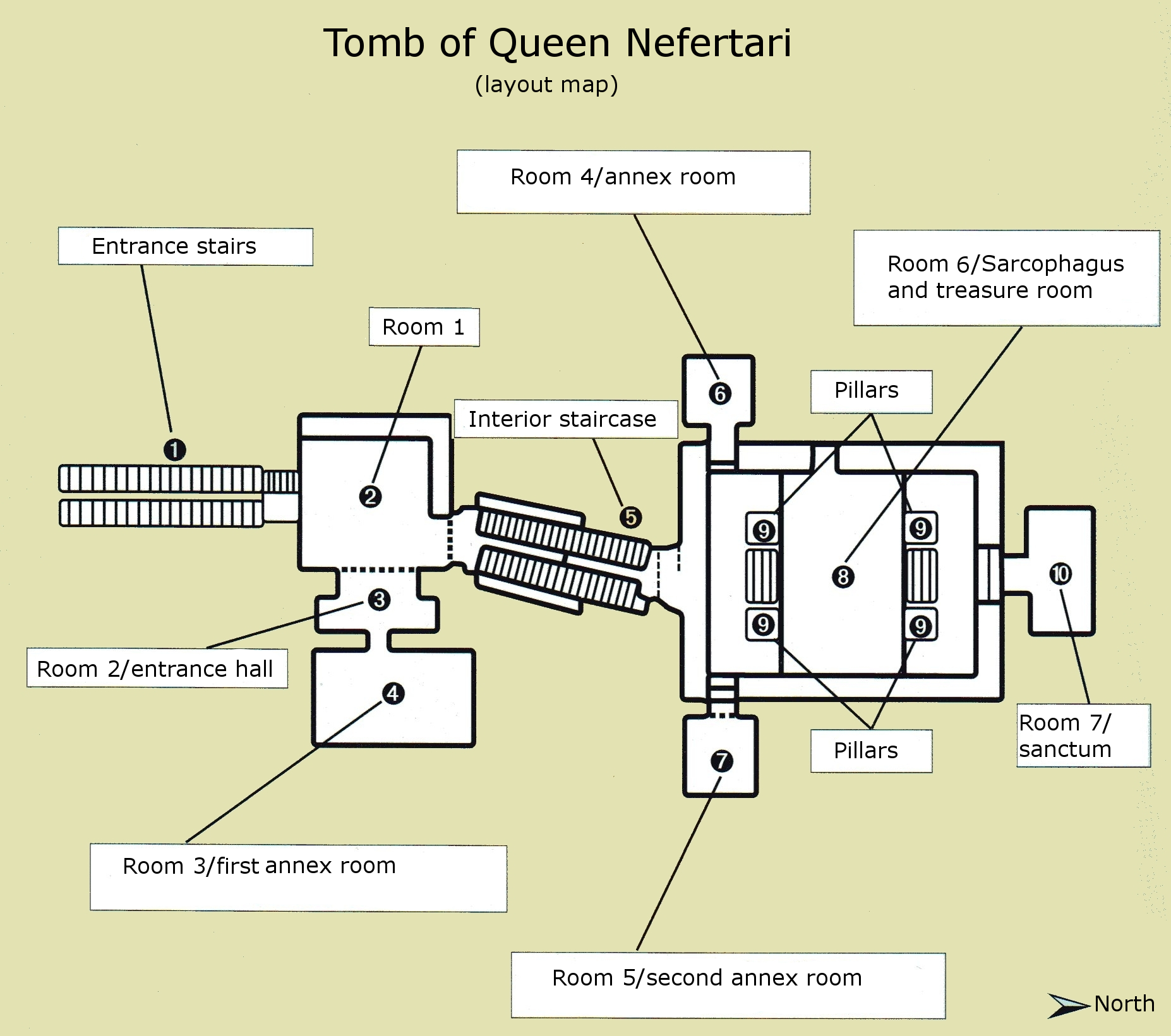 Translated from original File:GD EG Néfertari map.jpg to English